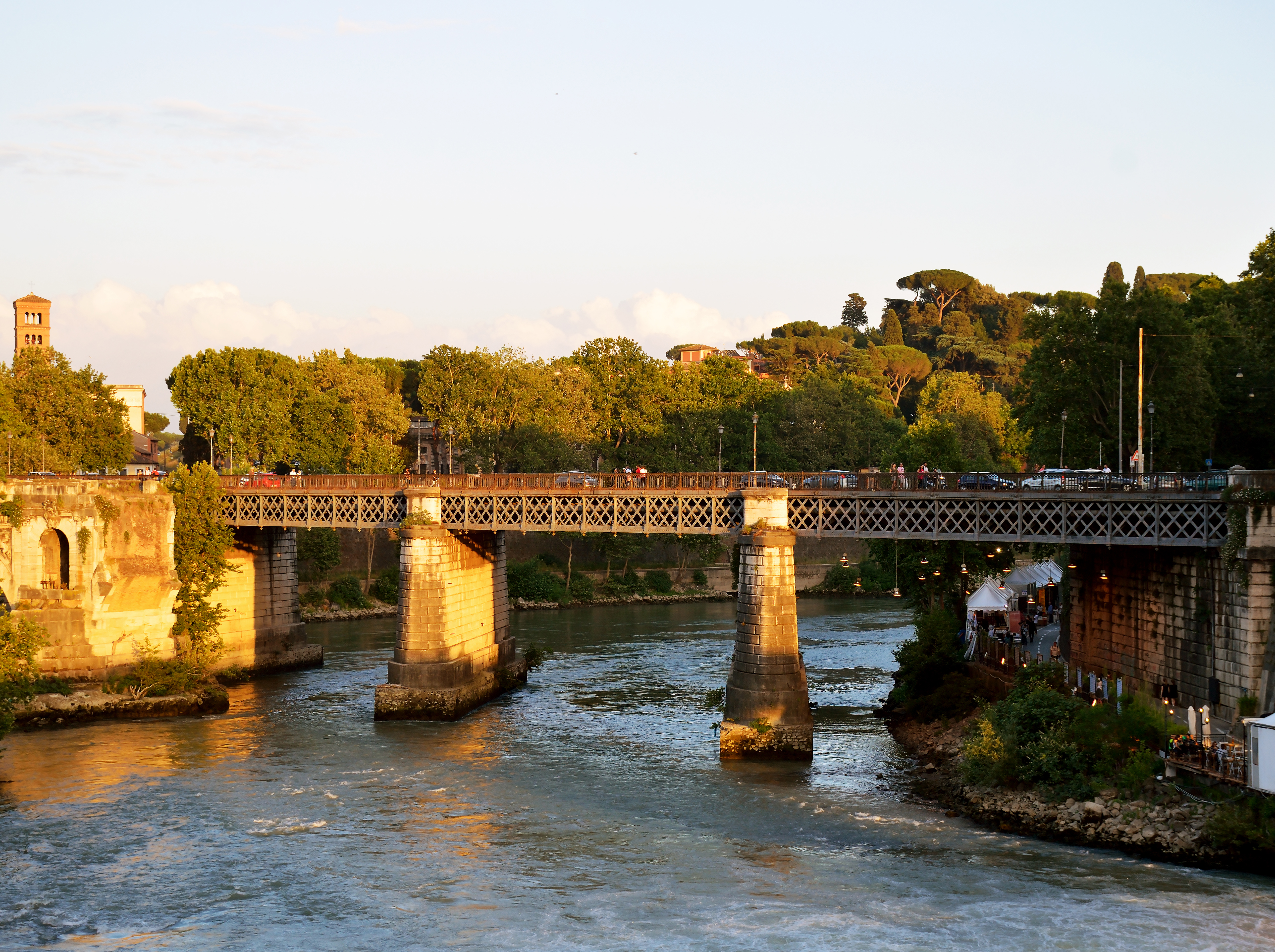 Sunset of Ponte Palatino